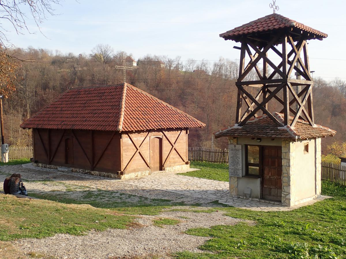 Crkva brvnara Sevojno